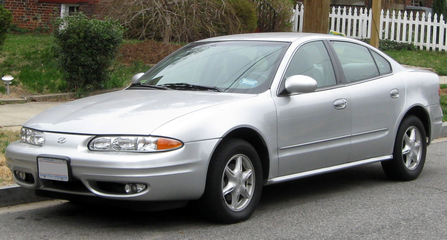 Oldsmobile Alero photographed in Washington, D.C., USA.